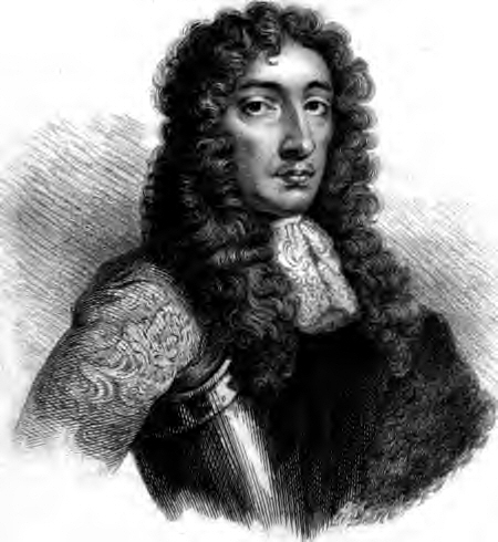 Anthony Ashley-Cooper, 1st Earl of Shaftesbury